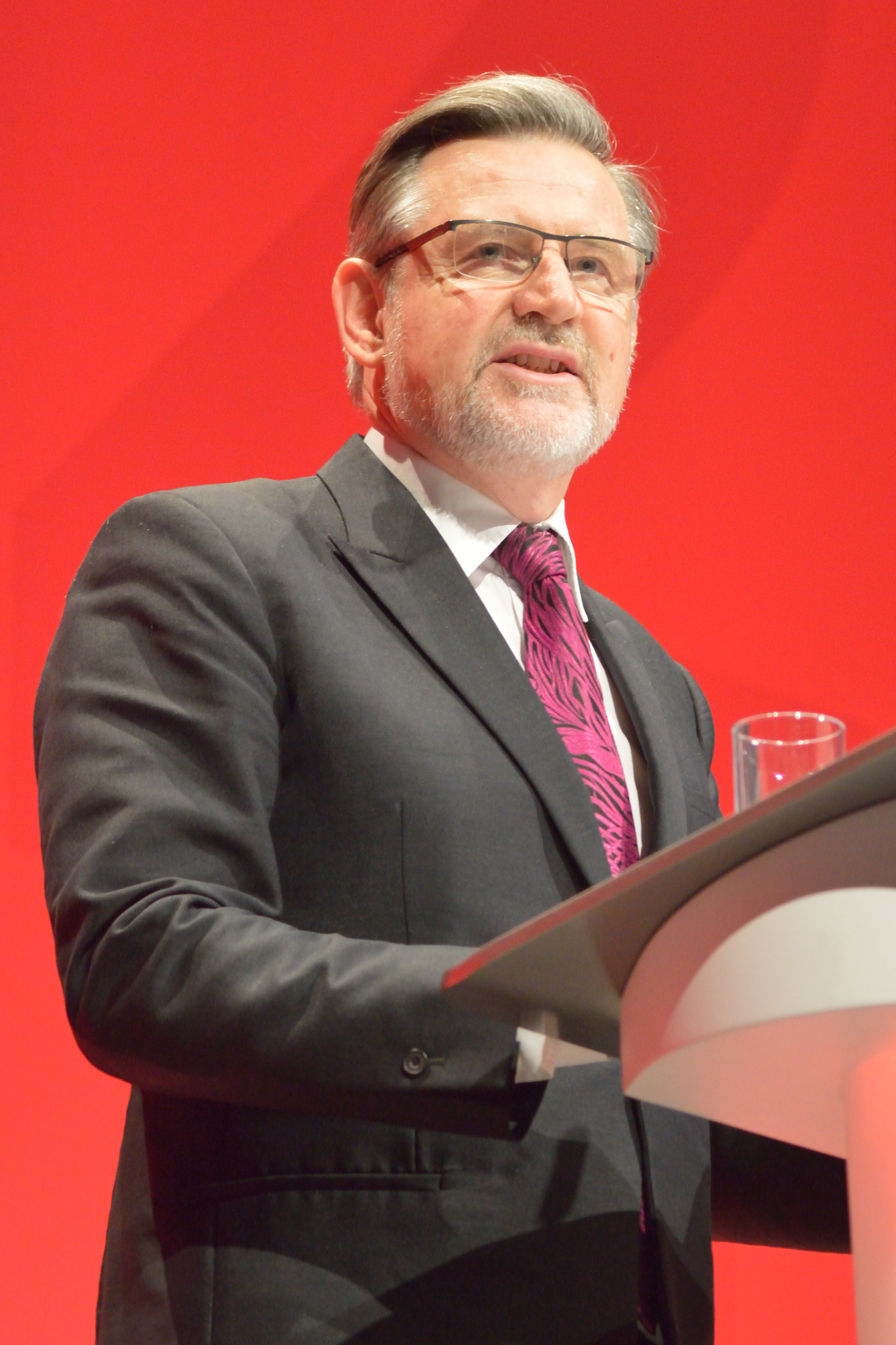 Barry Gardiner giving his speech at the 2016 Labour Party Conference in Liverpool.